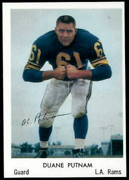 A 1959 promotional image of Los Angeles Rams player Duane Putnam.